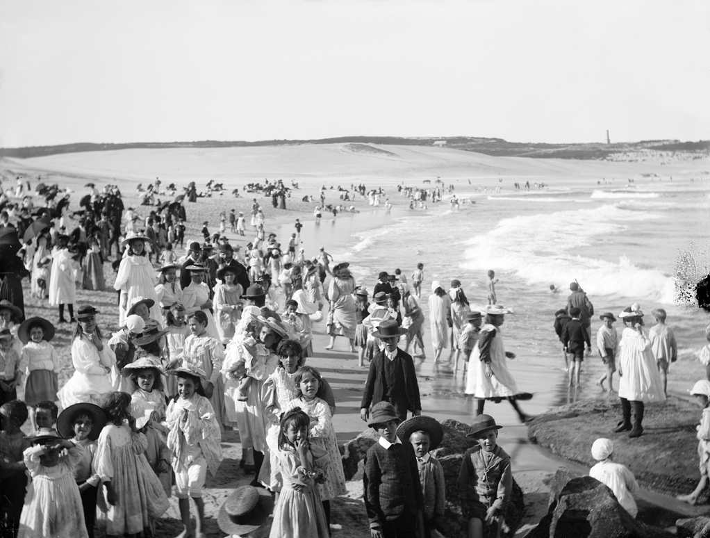 Format: Glass plate negative. Repository: Tyrrell Photographic Collection, Powerhouse Museum Part Of: Powerhouse Museum Collection General information about the Powerhouse Museum Collection is available at Persistent URL: [1] Acquisition credit line: Gift of Australian Consolidated Press under the Taxation Incentives for the Arts Scheme, 1985